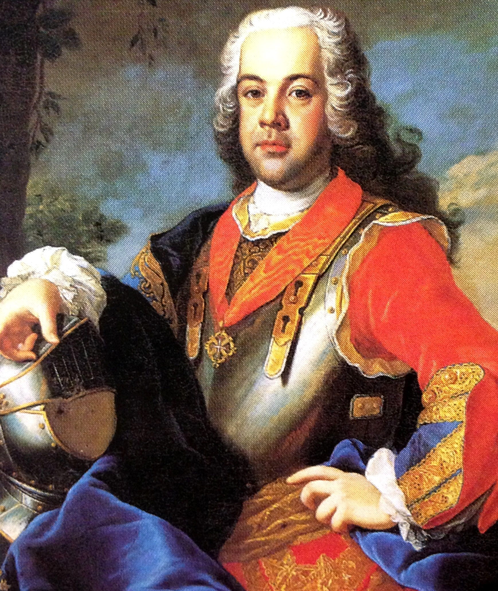 Portrait of Infante Francisco, Duke of Beja (son of King Pedro II of Portugal).